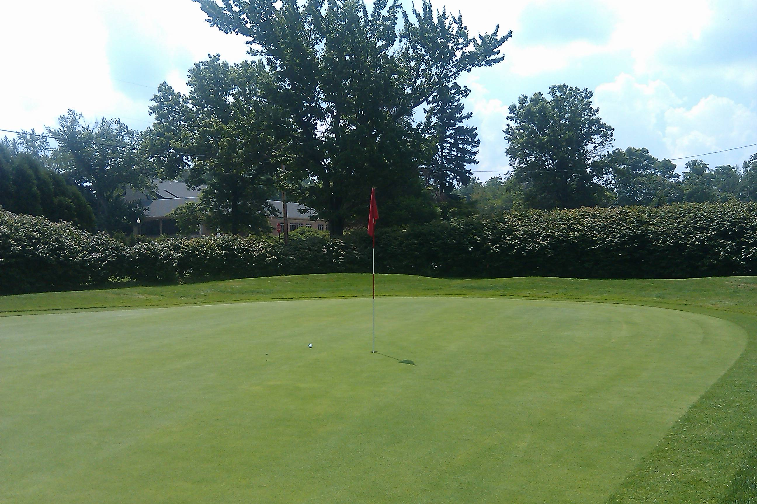 Putting green.